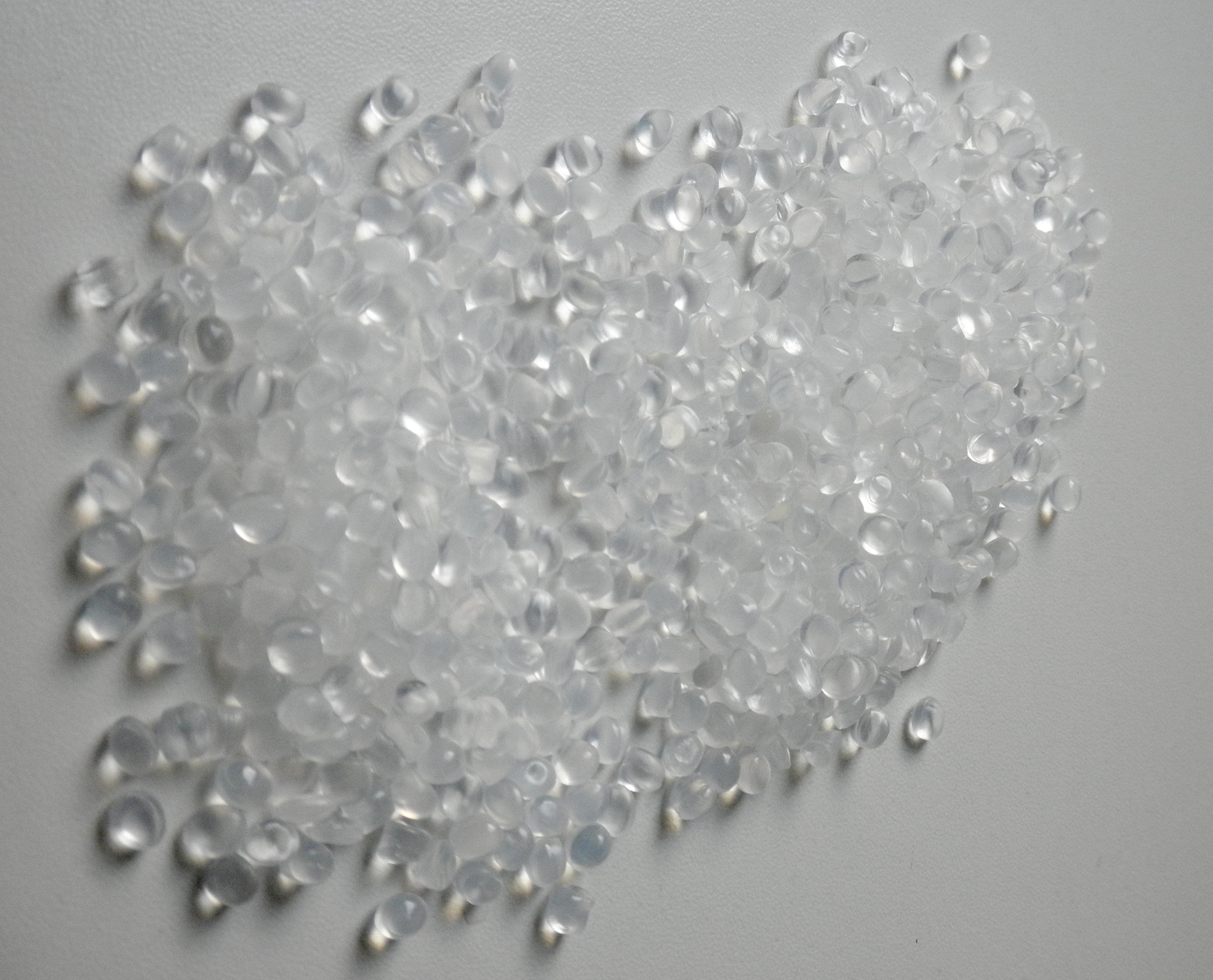 Polyethylene balls.